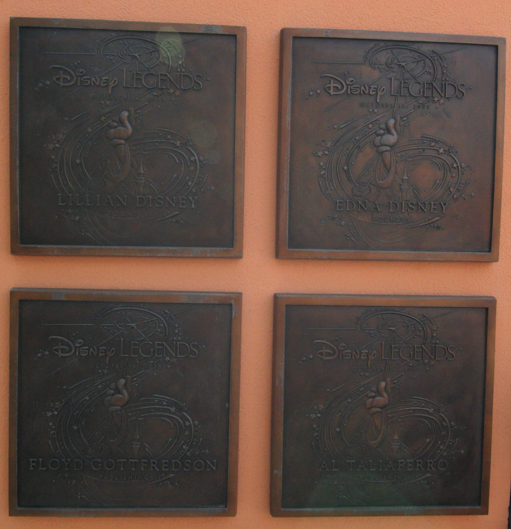 Al Taliaferro - Disney Legends